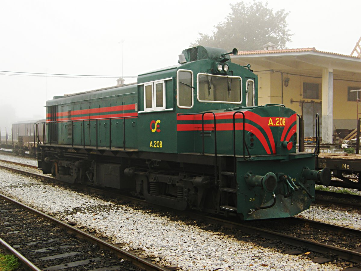 GREECE: ALCo DL532B diesel locomotive of OSE at Volos station.